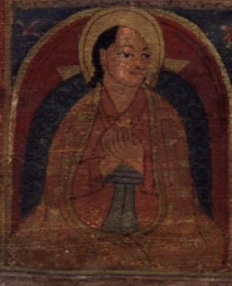 Shubu Namkha Sengge 12th Century Tibetan Monk